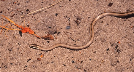 Psomophis joberti in Lençóis Maranhenses National Park, Maranhão State, Northeastern Brazil. Photo by J. P. Miranda.